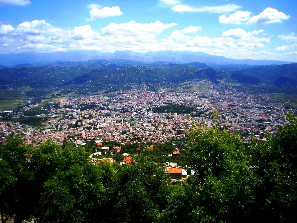 Tizi Ouzou from Sidi Belloua